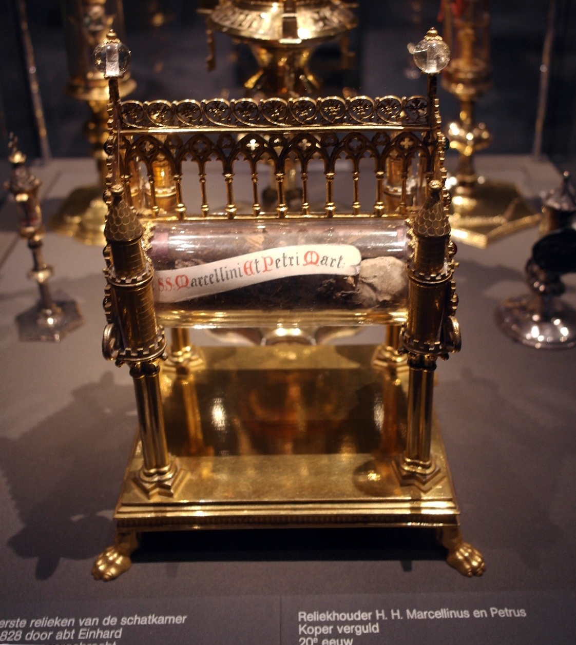 Maastricht, the Netherlands, Treasury of Saint Servatius Basilica. 19th-century reliquary containing the relics of the Roman martyrs Marcellinus and Petrus, donated to the church of Saint Servatius by Einhard (early 9th c).